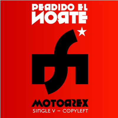 MotorSex Single V Cover